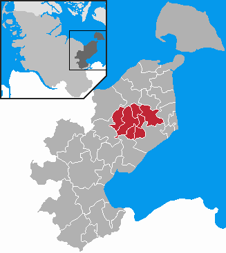 This map shows the area of the Amt (county) Lensahn in the Kreis (district) Ostholstein, Schleswig-Holstein, Germany.